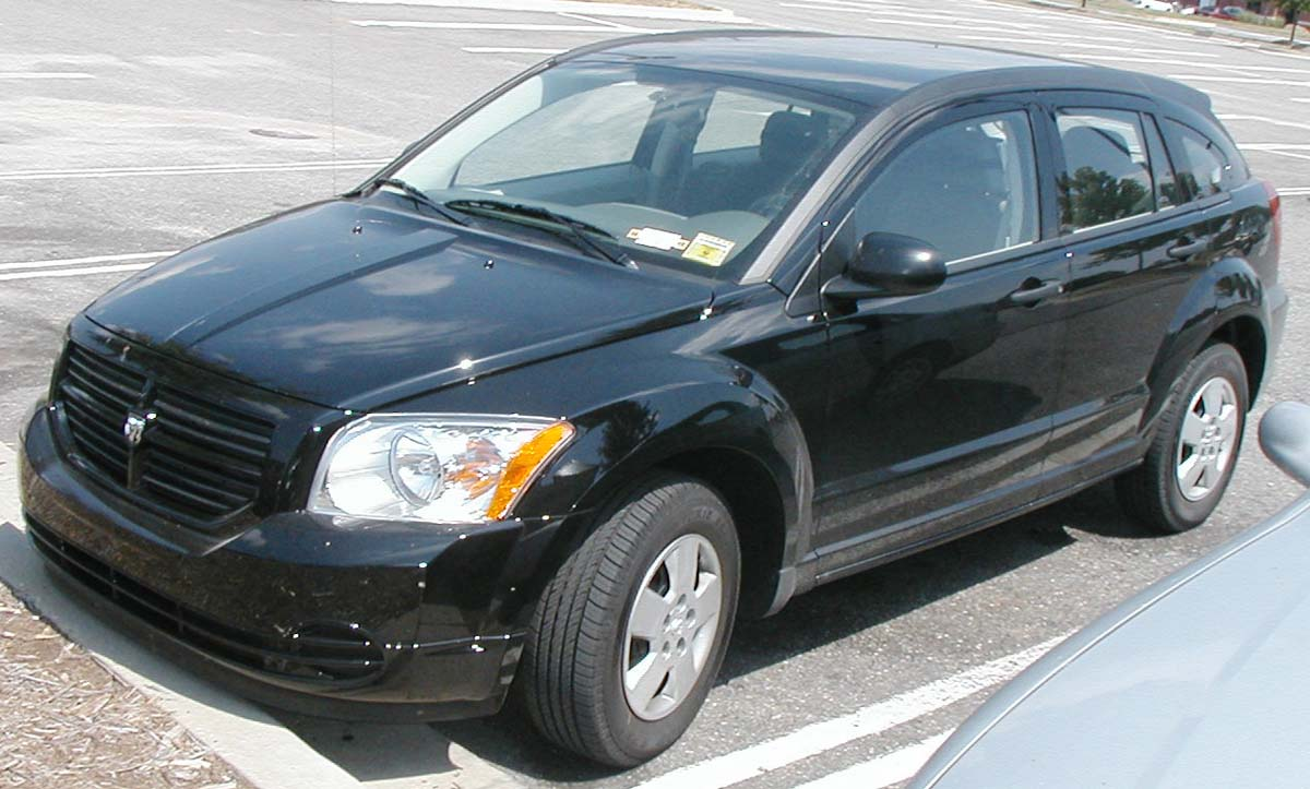 2007 Dodge Caliber photographed in USA.